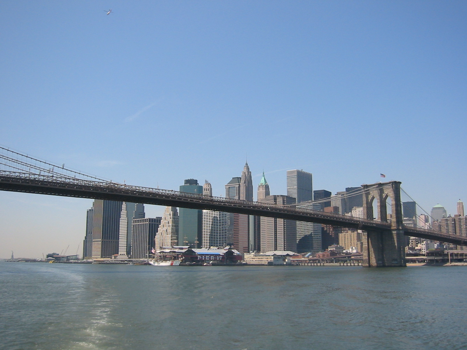 This picture was taken from a boat on the East River.